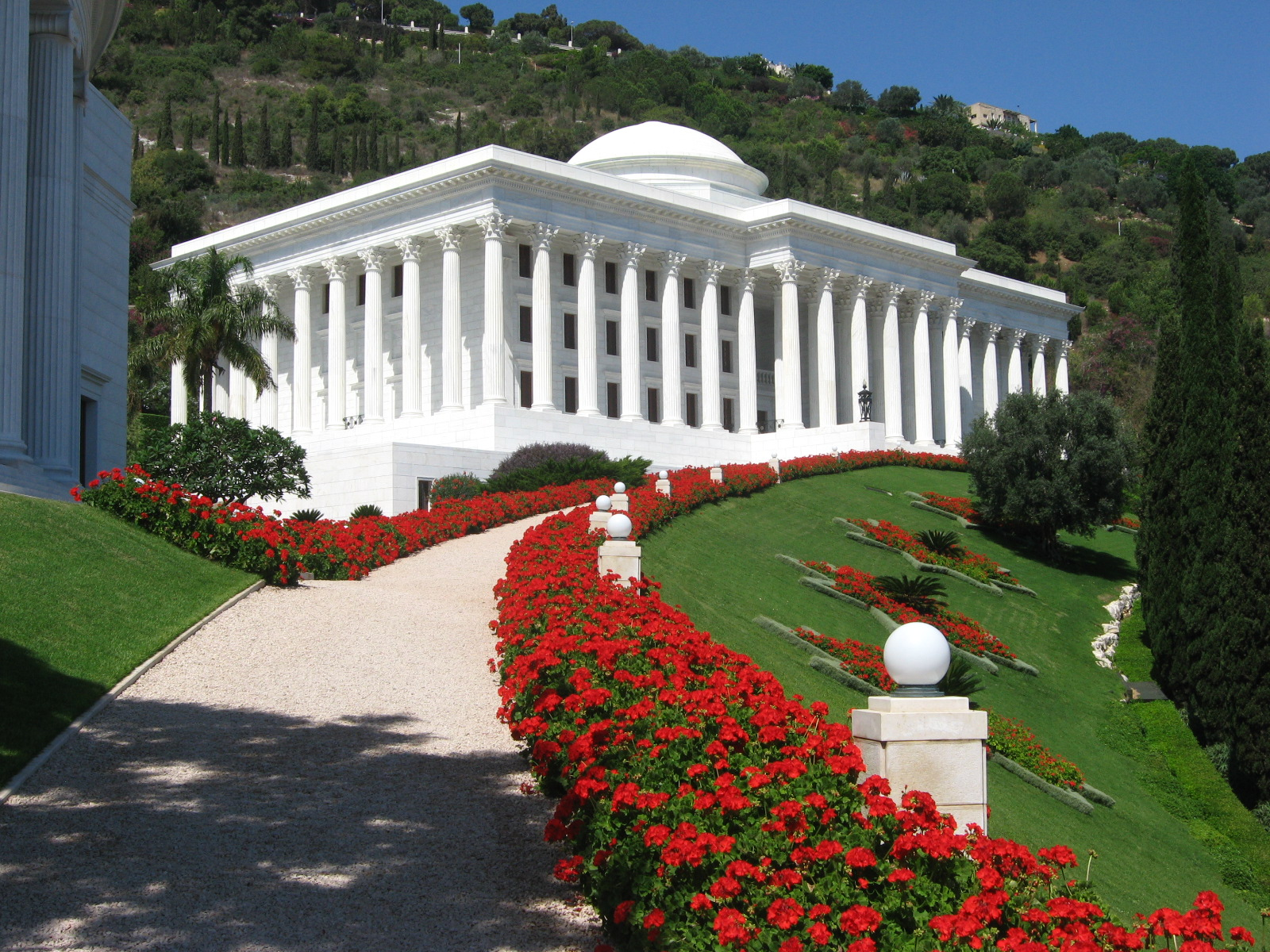 The Seat of the Universal House of Justice taken on Mount Carmel in Haifa, Israel.